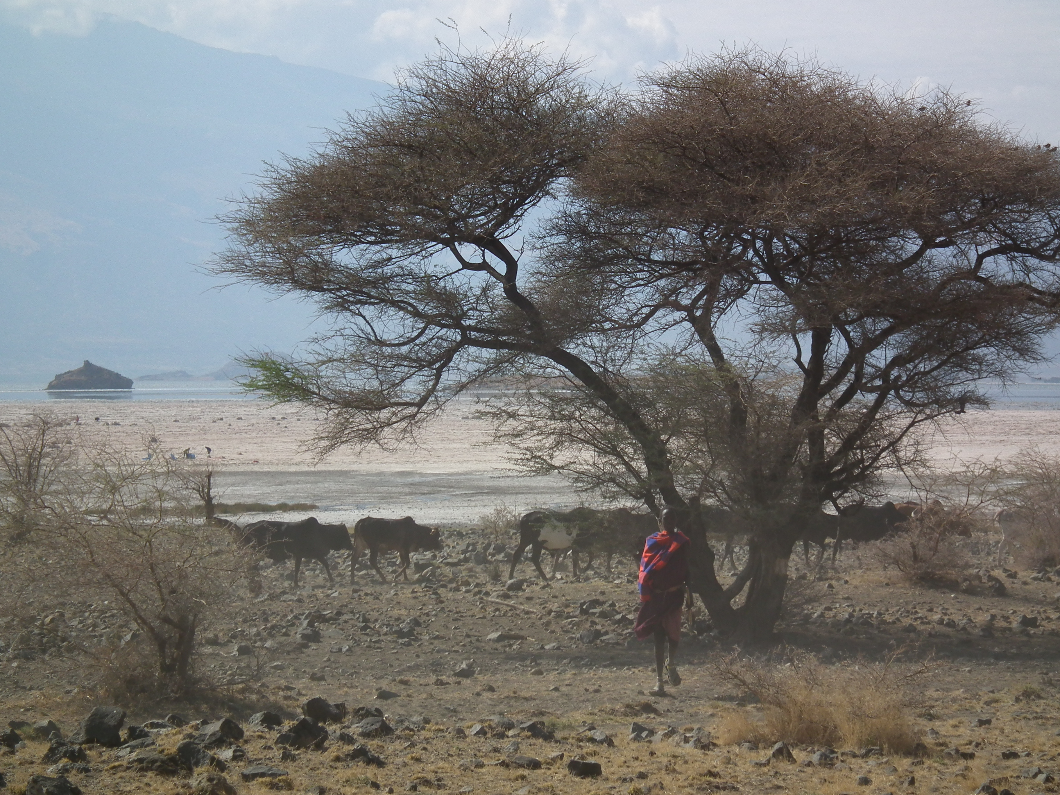 Maasai cattle herder under an Umbrella thron, with Lake Natron and Gelai Volcano in the background, Tanzania